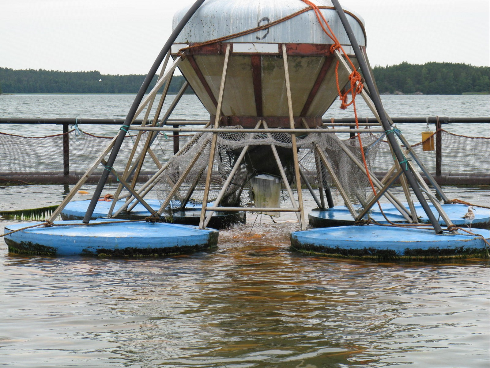 Salmon farm in the archipelago of Finland